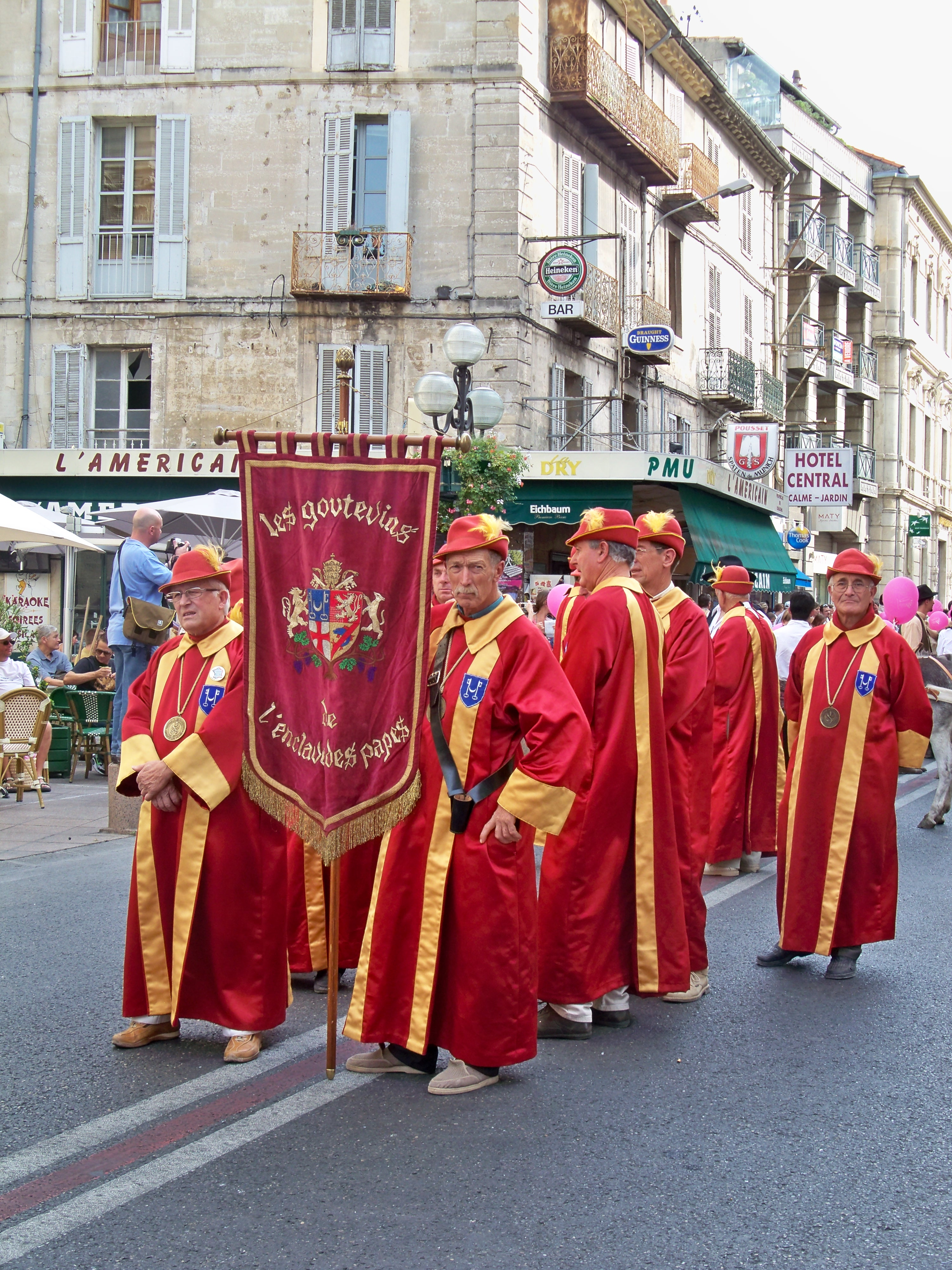 Brotherhood of Goutevins of the Wedge of Popes (Vaucluse, France)